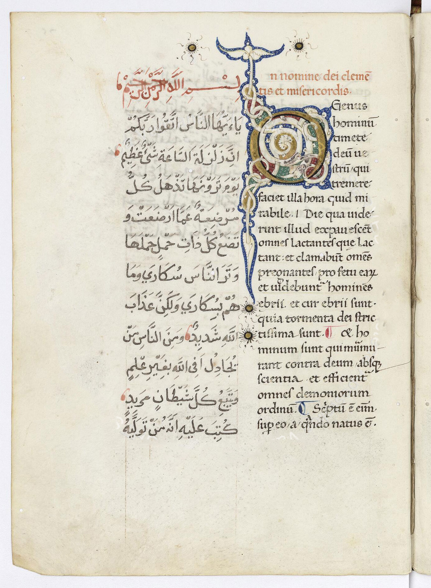 BAV ms. Urb lat 1384 fol. 75v